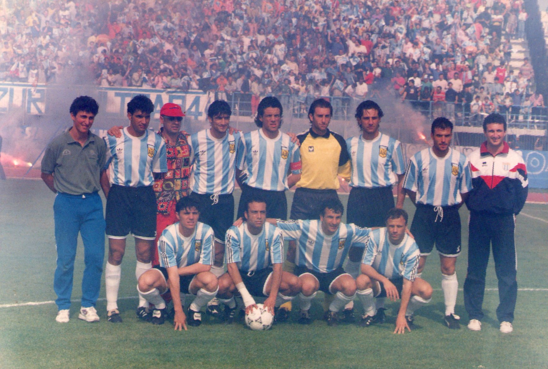 Formazione dell'Albanova nella stagione 94-95